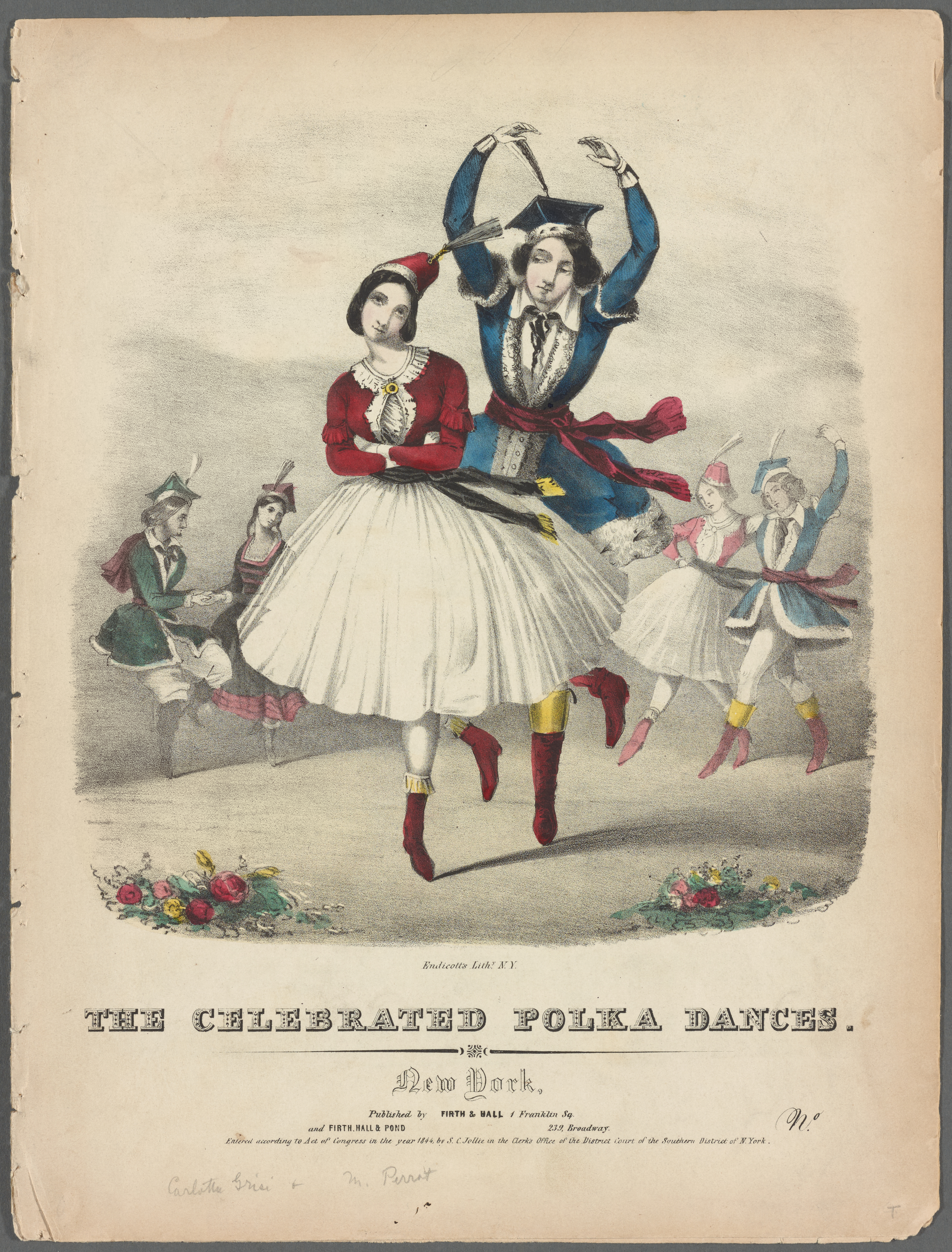 Full-length to front, Grisi and Jules Perrot dancing the polka, she has her arms crossed in front of her waist, his arms are raised above his head; two other couples dancing in background (possibly other views of Grisi and Perrot dancing the polka).